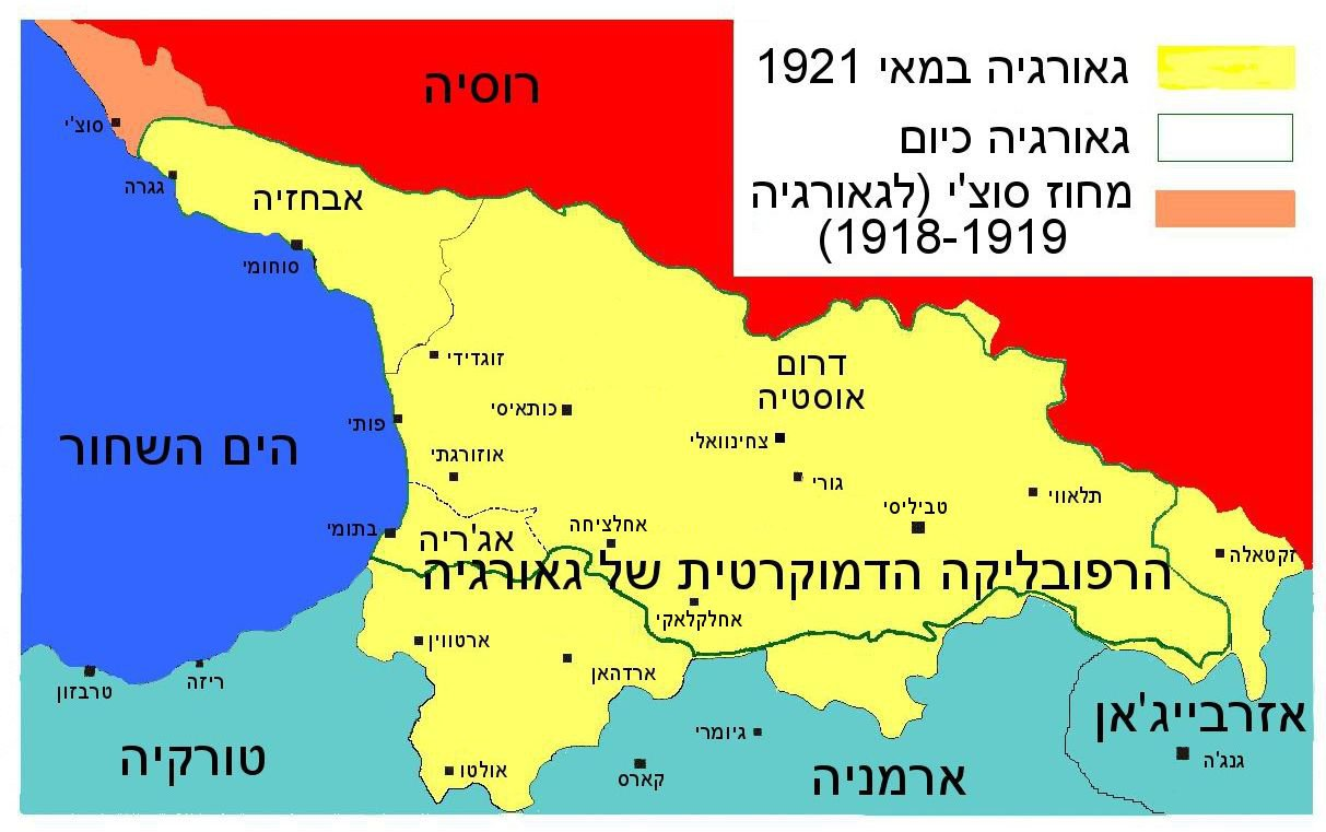 Democratic Republic of Georgia map